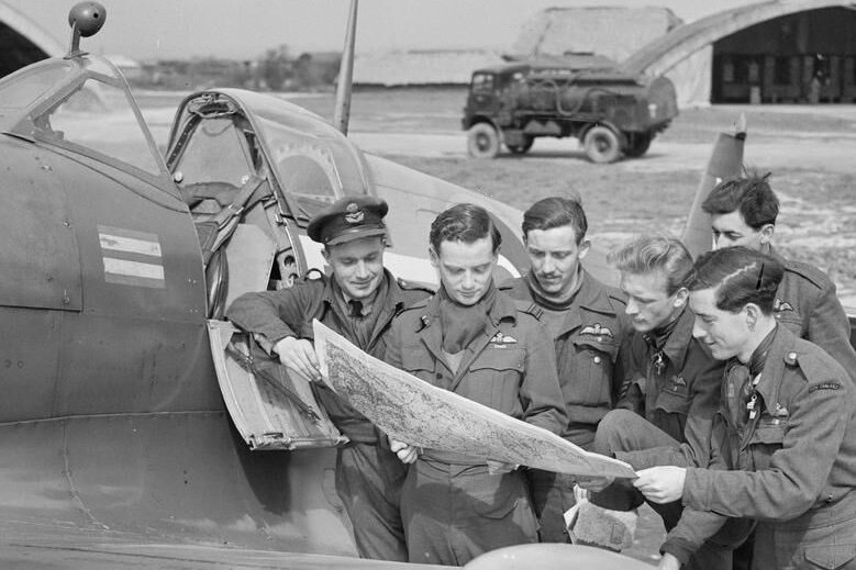 Squadron commander Geoffrey Page of 132 Squadron and some of his pilots gather about the wing of his Spitfire to look at a map